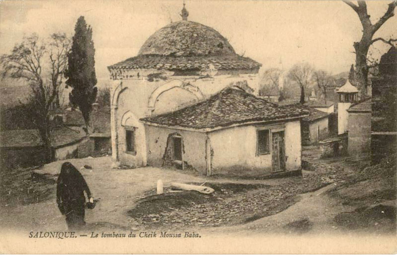 Musa Baba Turbe (mausoleum) - old cart postale (beginning 20 century), Thessaloniki, Greece.